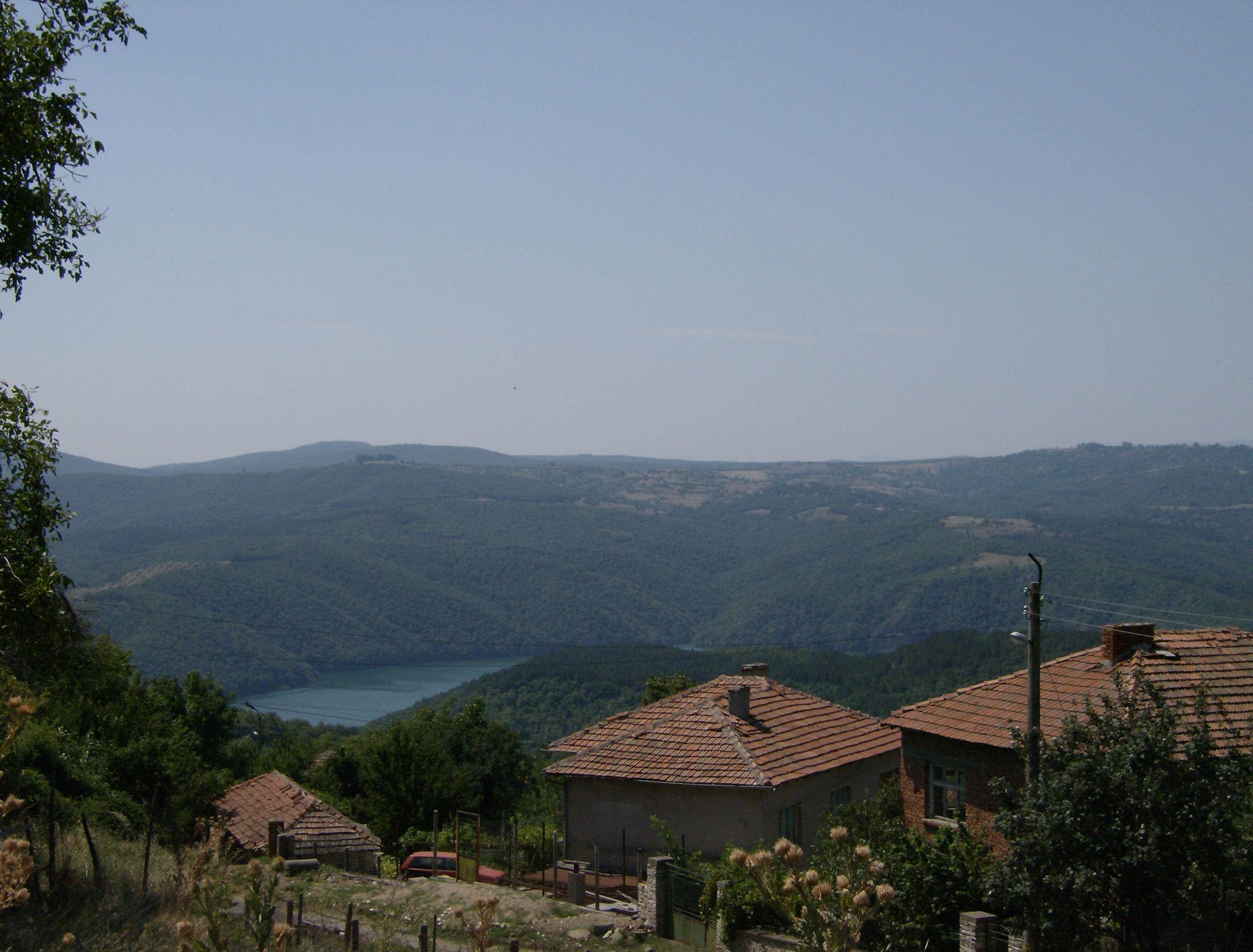 Kamilski dol